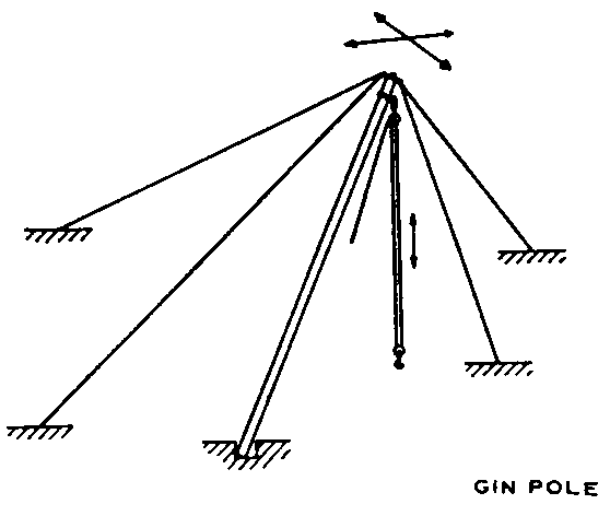 A "gin pole derrick" is a derrick without a boom. Its guys are so arranged from its top as to permit leaning the mast in any direction. The load is raised and lowered by ropes reeved through sheaves or blocks at the top of the mast.